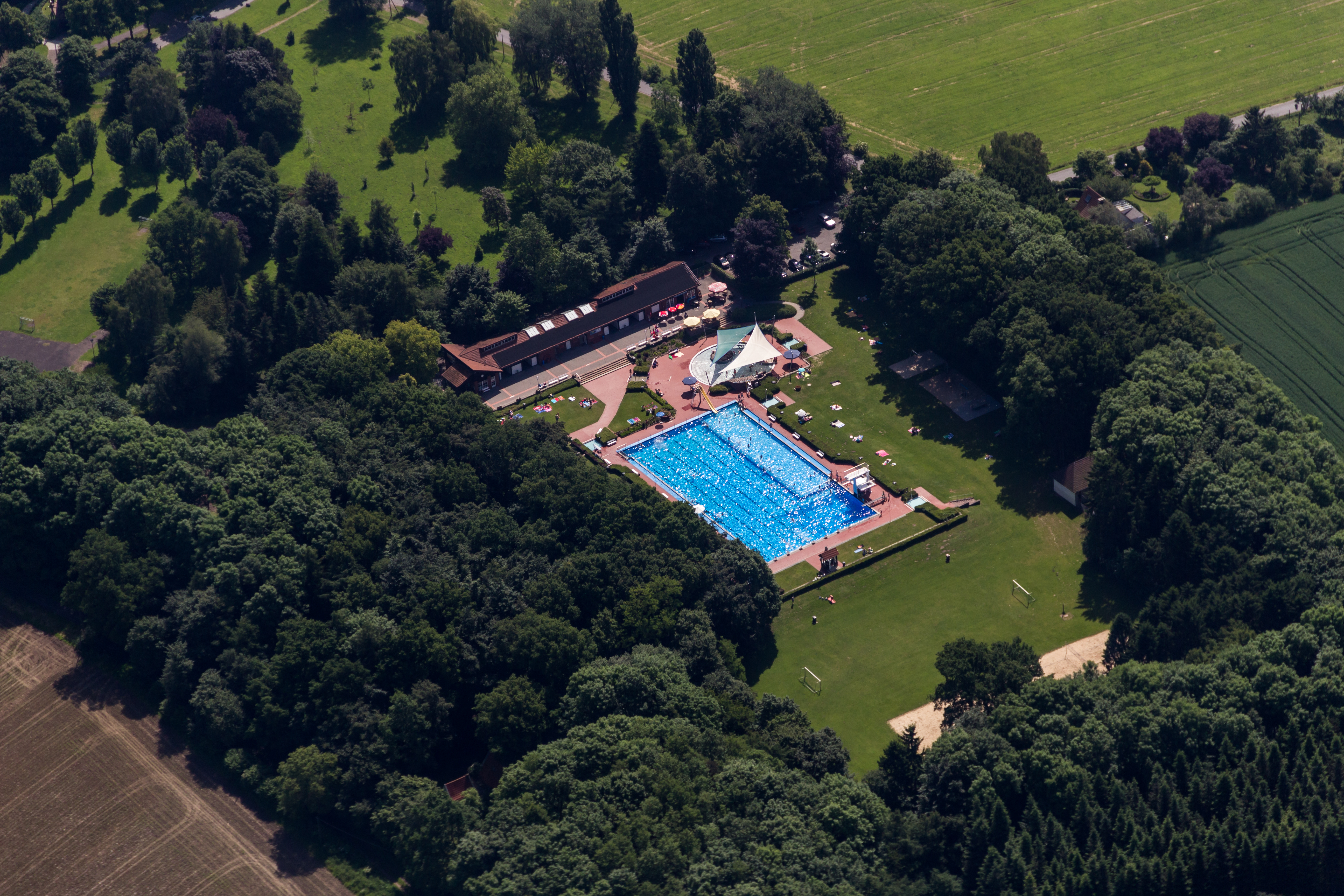 Bergfreibad, Ochtrup, North Rhine-Westphalia, Germany